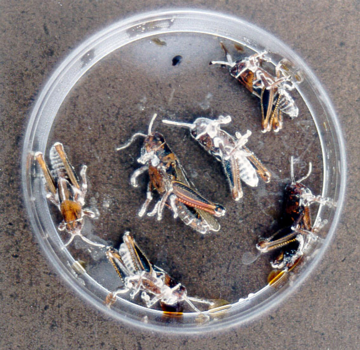 Grasshoppers (Melanoplus sp.) killed by the fungus Beauveria bassiana.